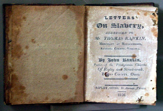 A copy of John Rankin's book, Letters on Slavery, printed in 1826 and displayed at the Rankin House, 2005, by Rick Dikeman